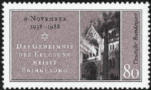 German stamp of 1988 for the 50th anniversary of the Crystal Night, showing the synagogue of Baden-Baden set on fire by the Nazies.